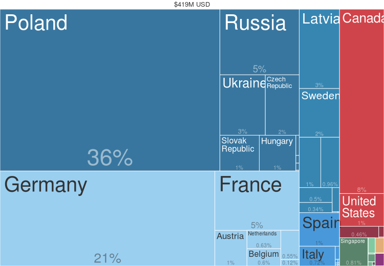 Rye Exports by Country (2014)